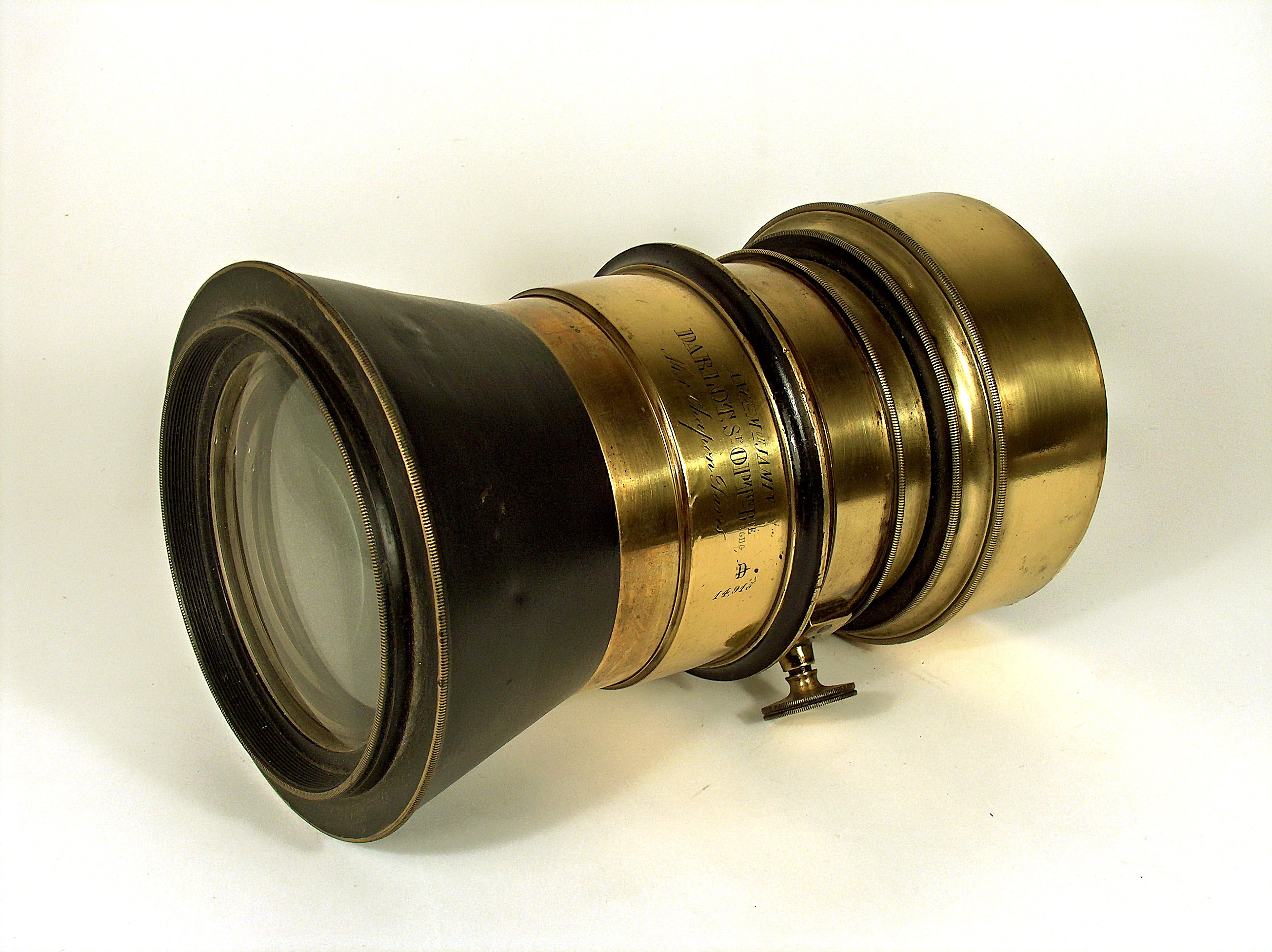 Landscape lens Mon Jamin Darlot. Now it is part of collection in Museum of Science and Technology Belgrade.